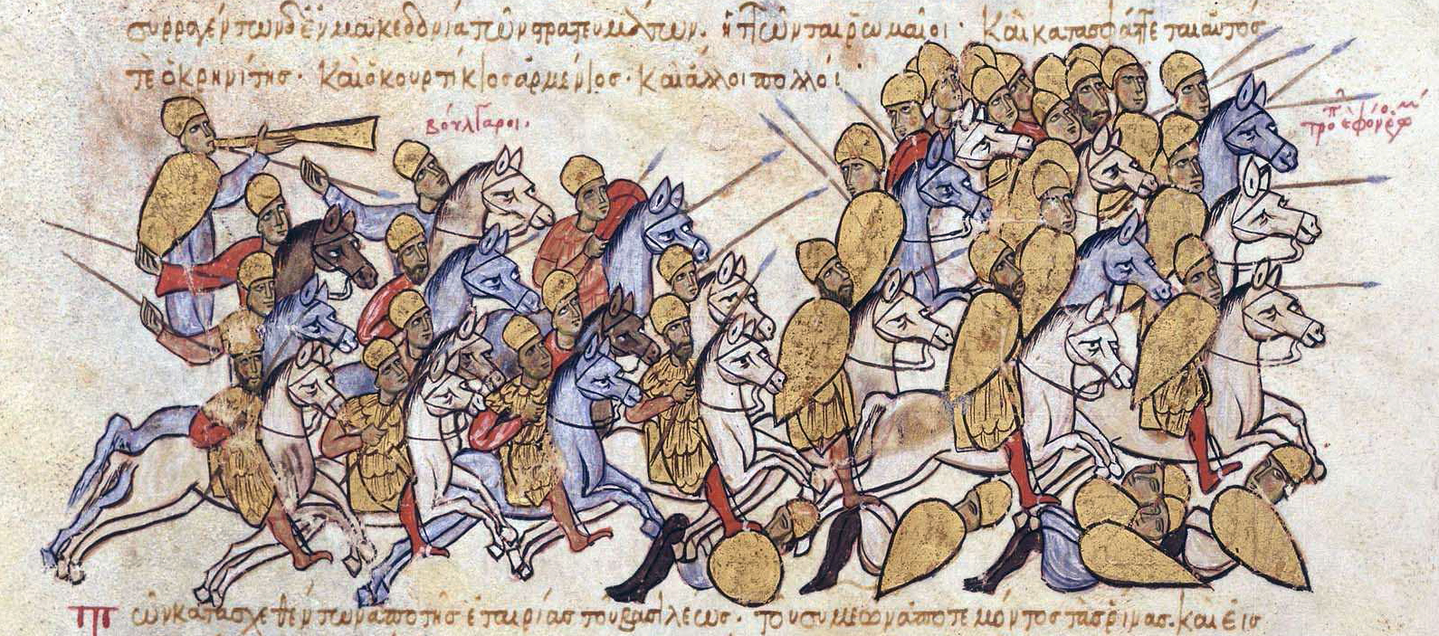 Skyllitzes Matritensis, fol. 108r, detail Miniature: Tsar Symeon I of Bulgaria defating the Byzantine army, led by Procopius Crenites and Curtacius the Armenian in Macedonia References: Tsamakda V.: The illustrated chronicle of Ioannes Skylitzes in Madrid, p. 143 Божков А.: Миниатюри от Мадридския ръкопис на Йоан Скилица, p. 204